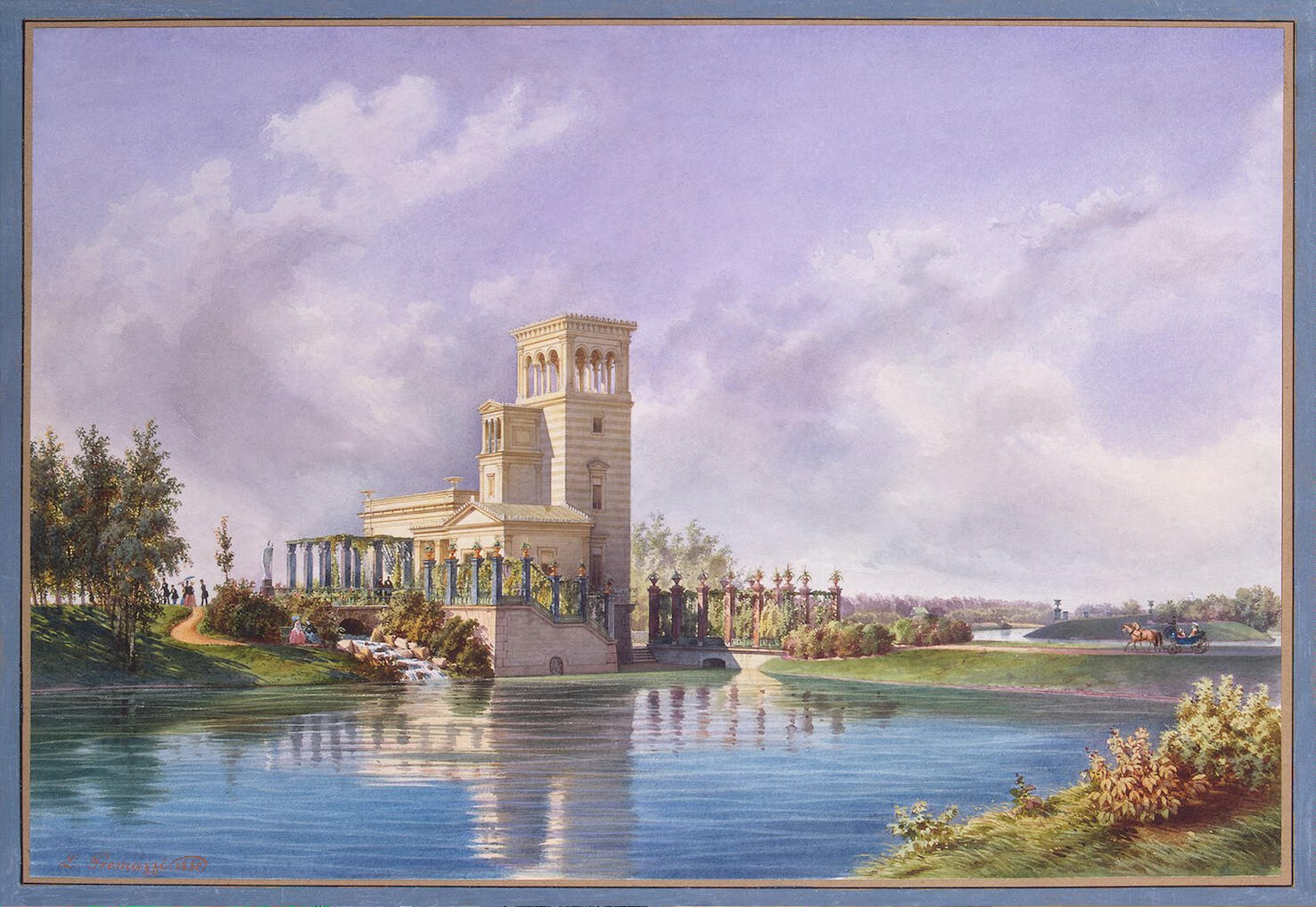 Rose Pavilion in the Lugovoi Park in Peterhof. Drawings, Watercolour and white, 28.4x41.2 cm. State Hermitage Museum, Source of entry: from the Library of Alexander II in the Winter Palace, 1920